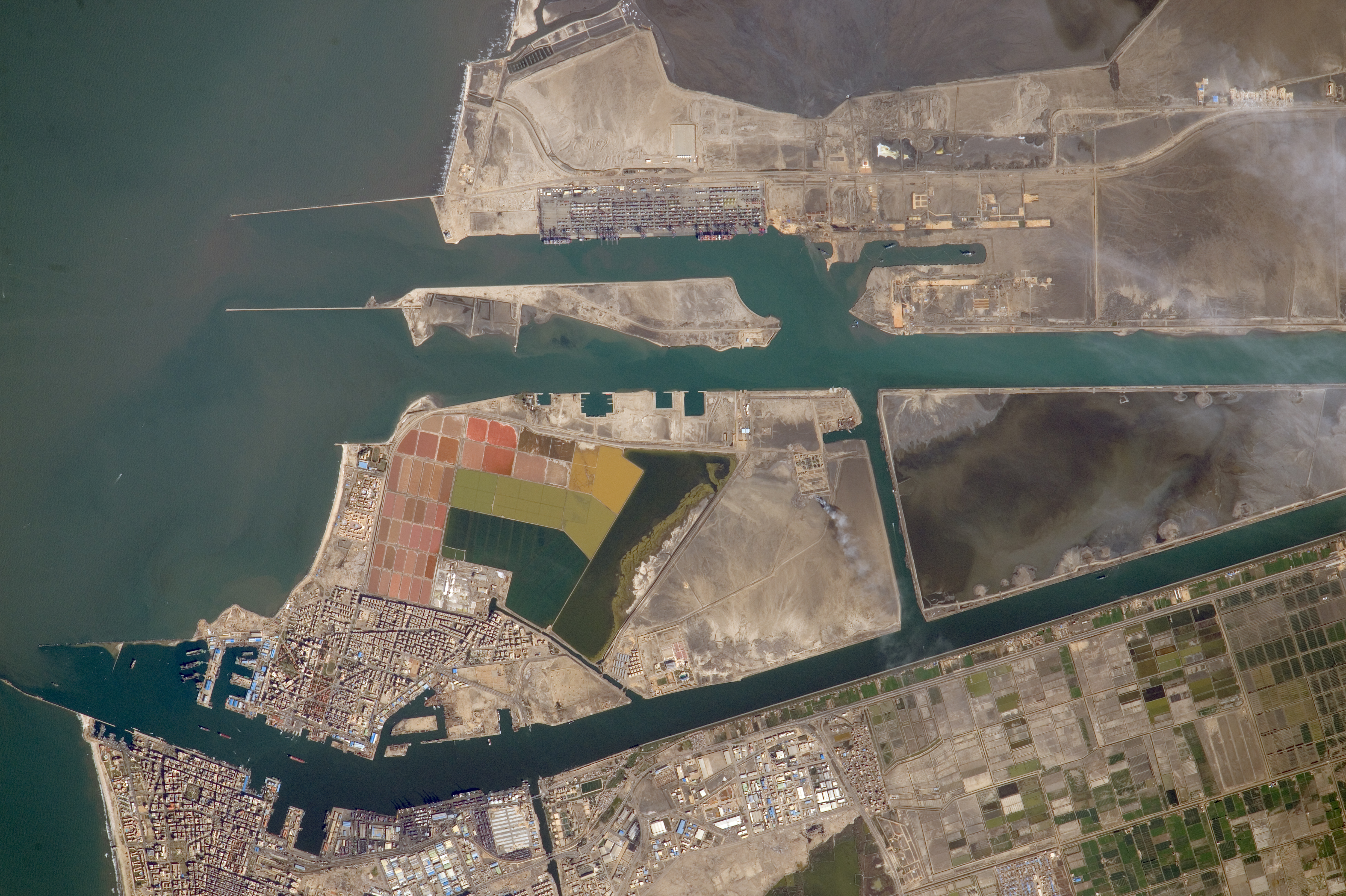 NASA astronaut Tim Kopra tweeted this image with the comment: "Entry to the #SuezCanal in #Egypt, connecting the #Mediterranean to the Red Sea. #shipping #explore @Space_Station"